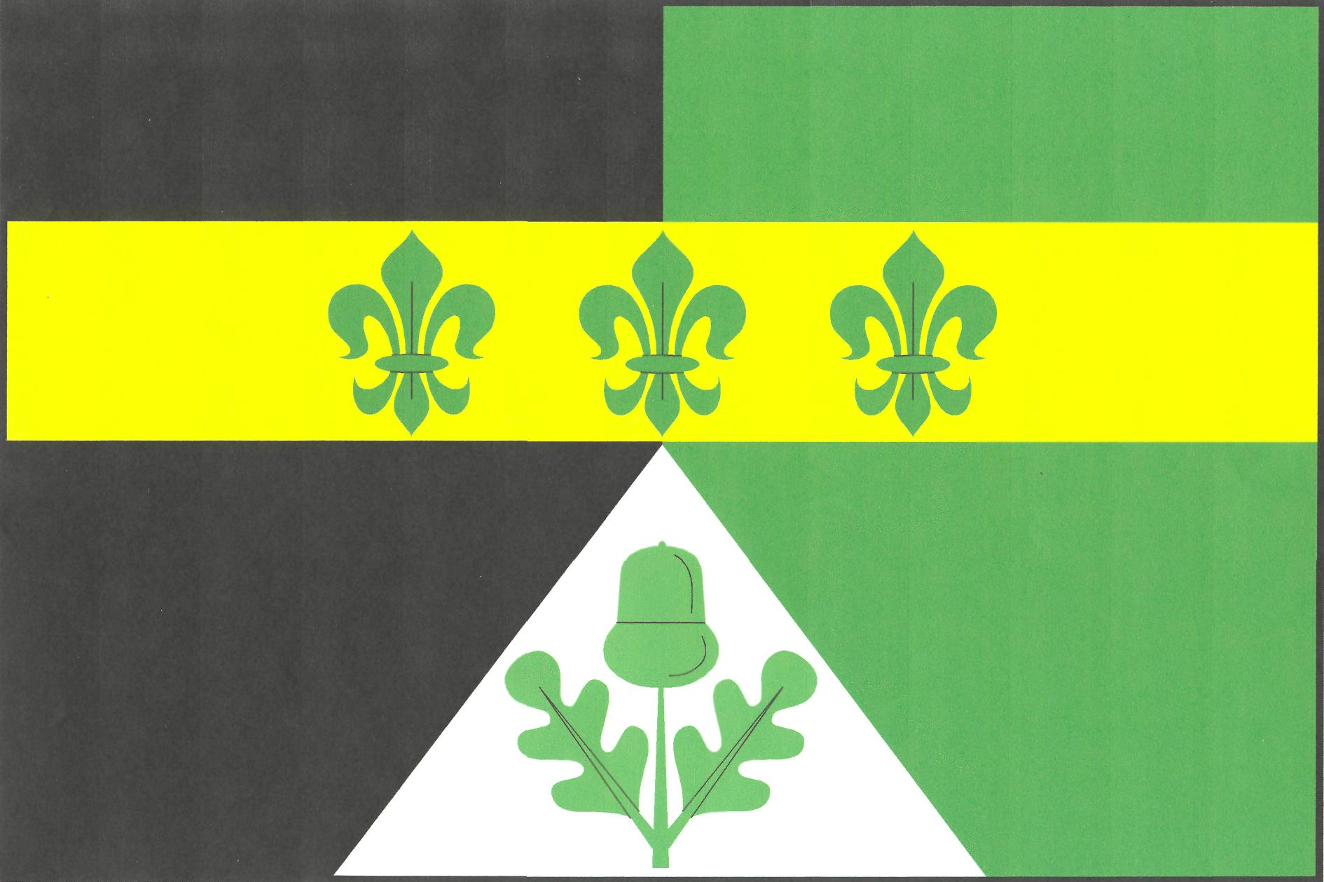 Municipal flag of Dubno , District Příbram, Czech Republic